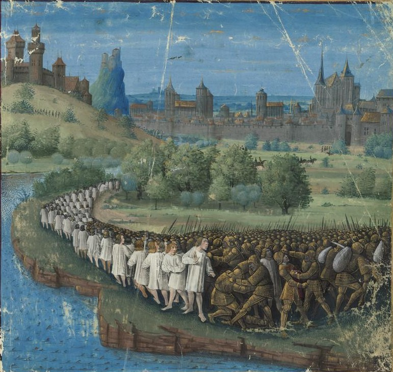 Medieval illuminated manuscript showing Peter the Hermit's People's Crusade of 1096